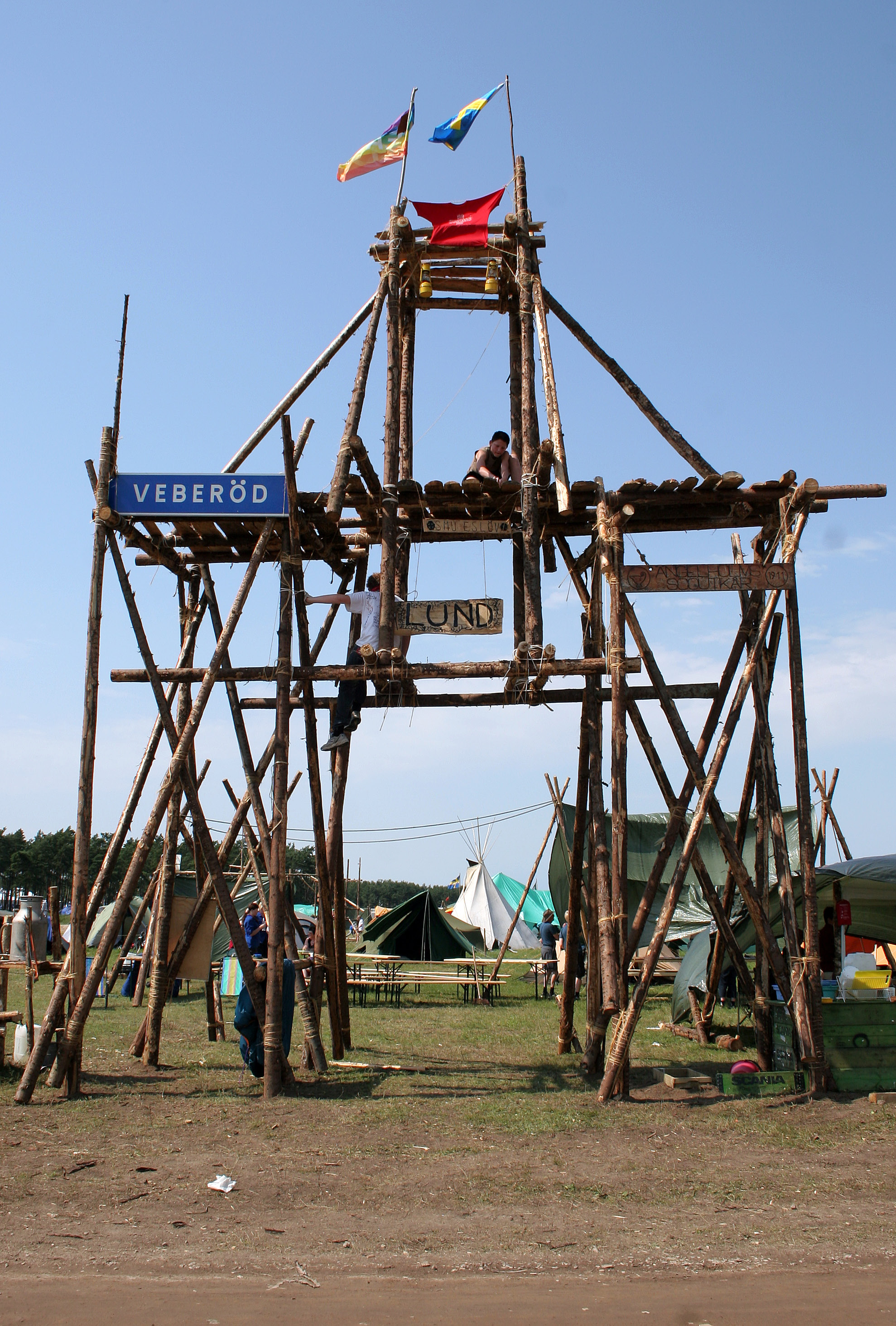 Village portal at Jiingijamborii national jamboree in Rinkaby, Sweden.